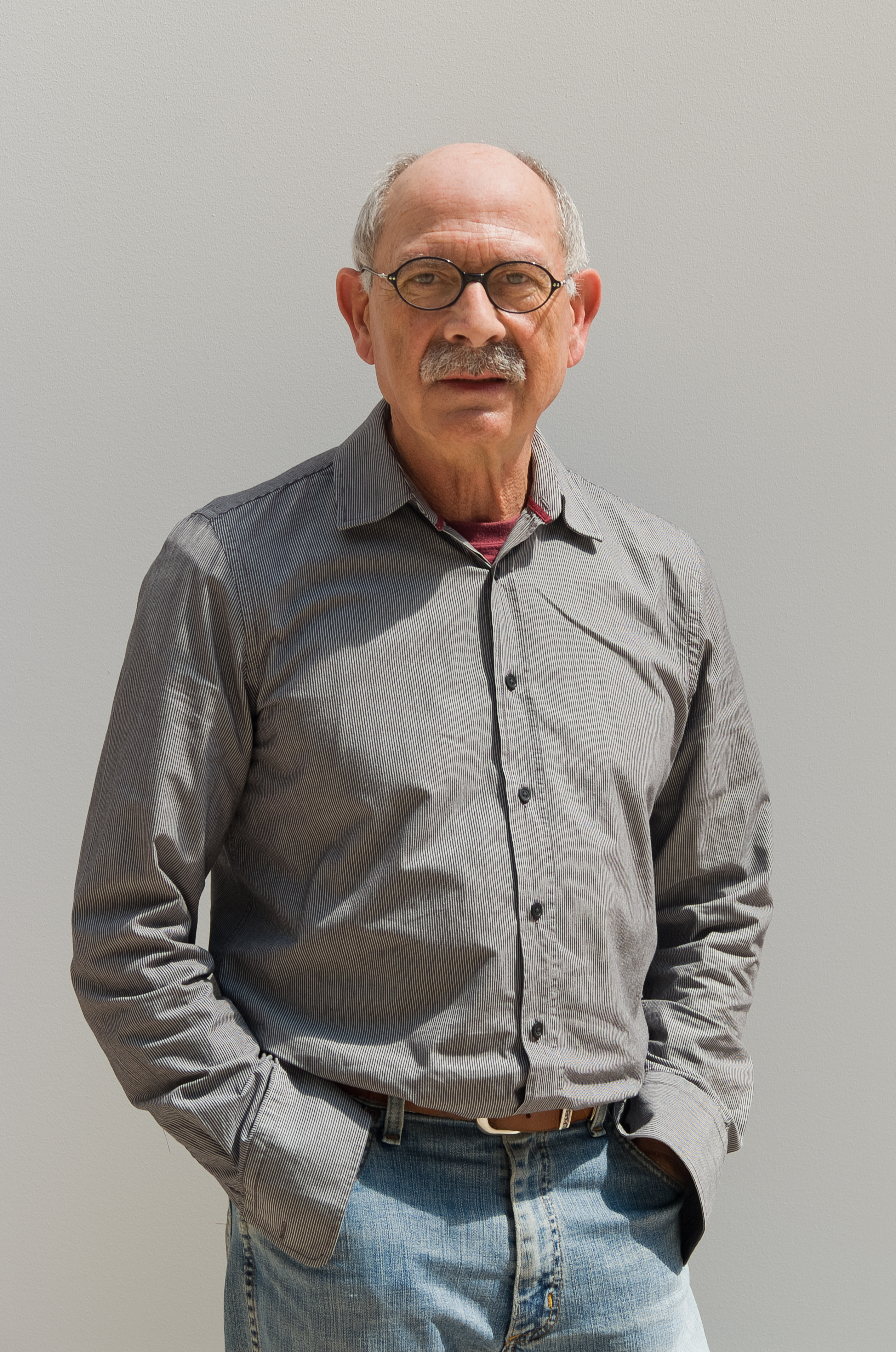 Photograph of Lois Diéguez